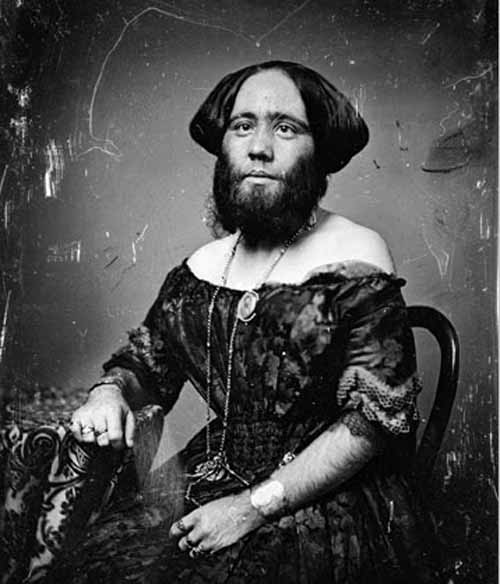 Josephine Clofullia, “The Bearded Lady of Geneva”.